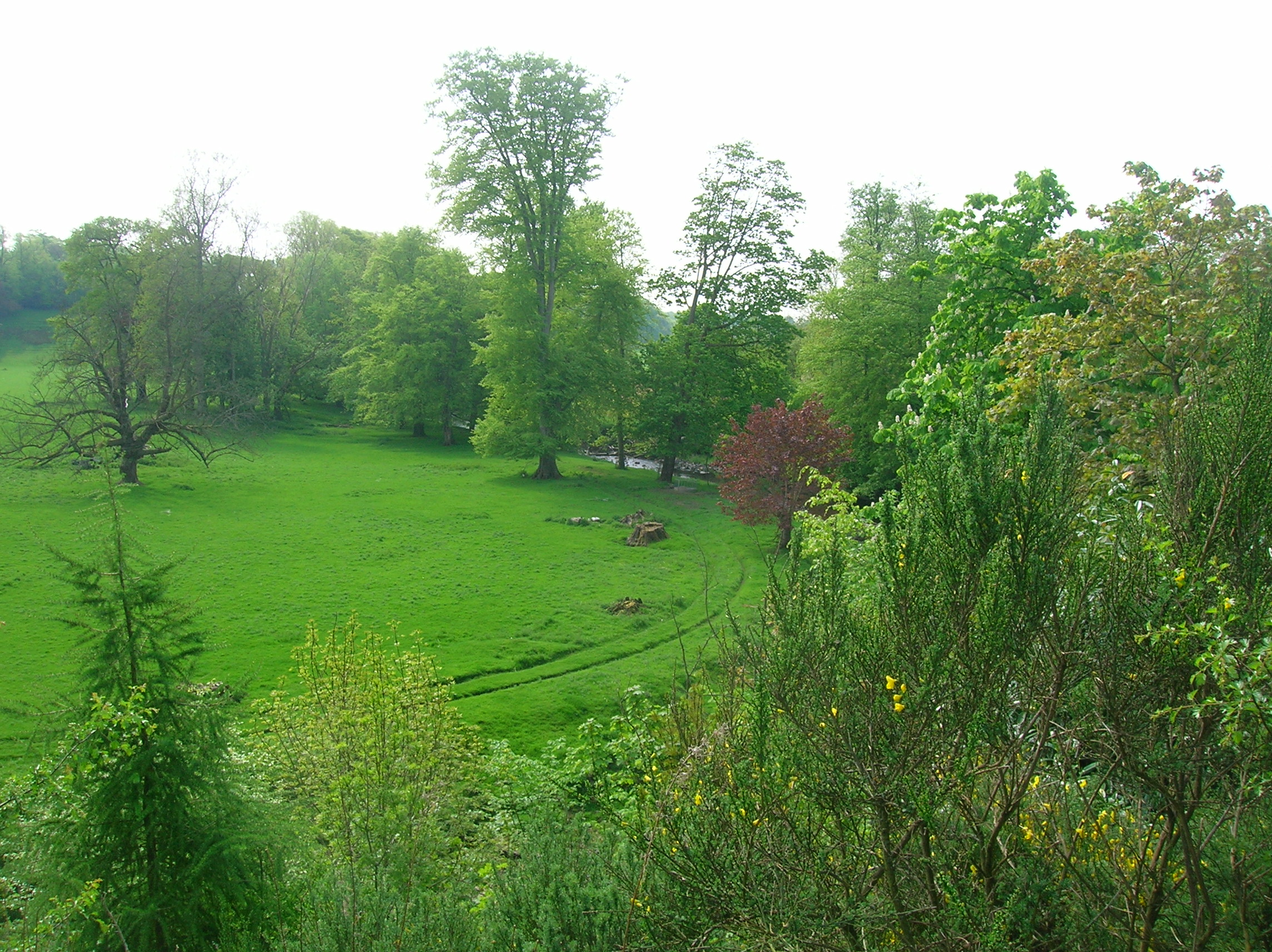 The Annick Holm with the Annick Water, Irvine, Ayrshire, Scotland